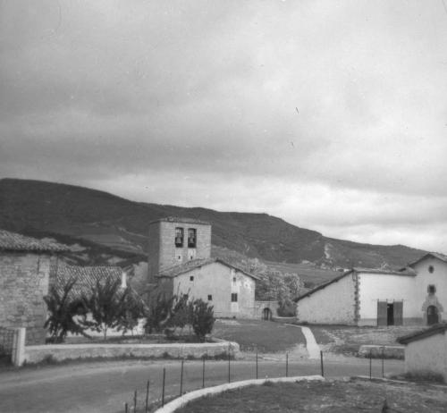 Markalain